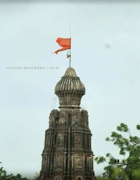 janai mandir shikhar